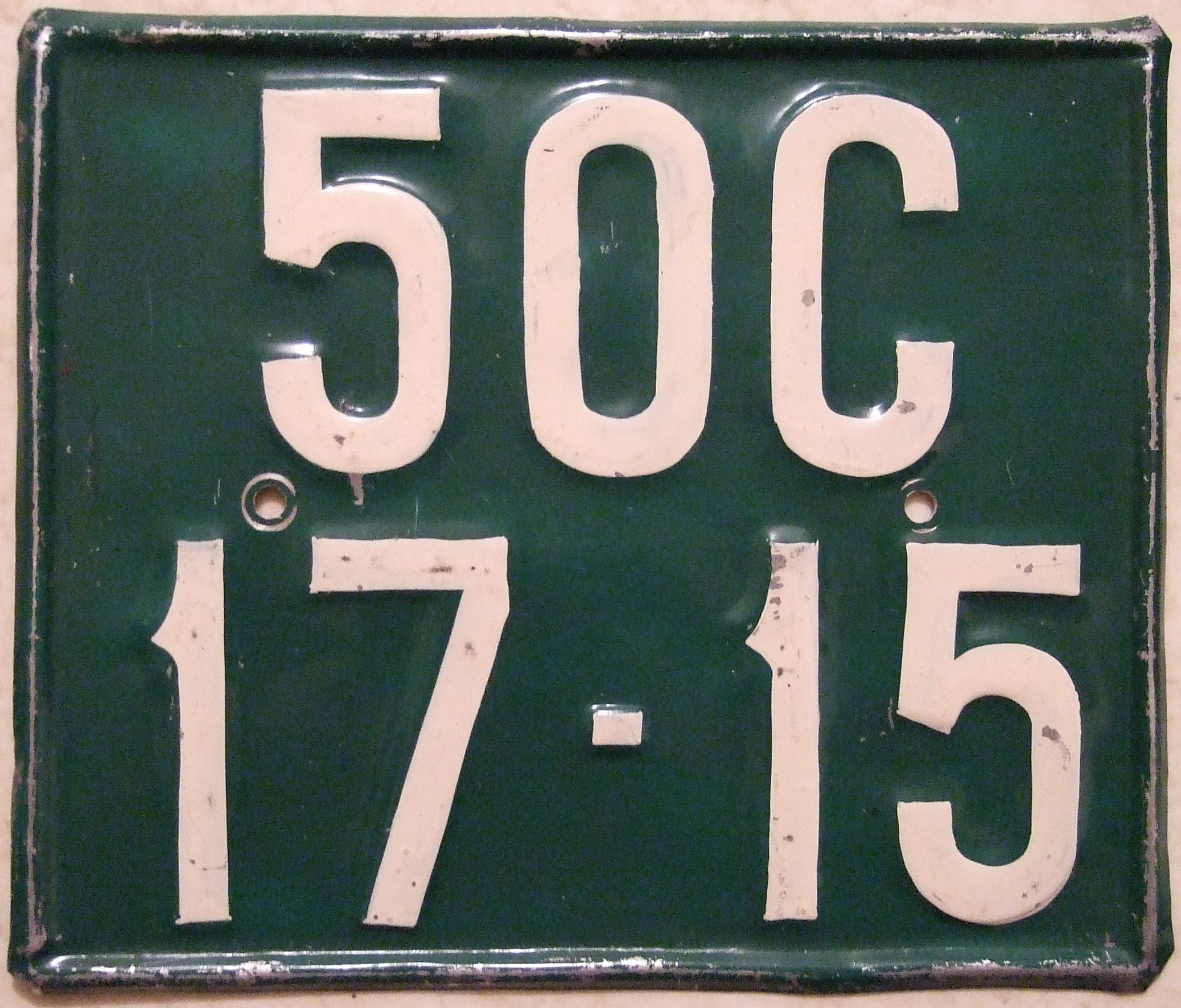 Ho Chi Minh City (Saigon) 1980's license plate. 50 = Ho Chi Minh City White (or Silver) over Green = Government Vehicles/Public Service Vehicles (Buses)/Co-Operative Trucks Used 1975 - 1995.